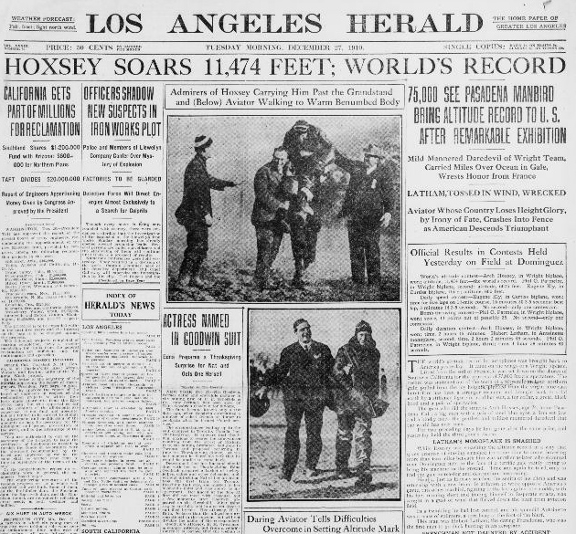 Top half of first page of Los Angeles Herald the day after Archibald Hoxsey set a world airplane altitude record of 11,474 feet. Photos show Hoxsey being carried by fans and walking to a grandstand.